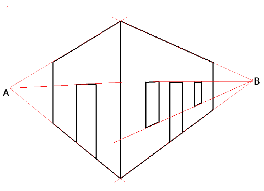 A simple drawing showing the use of two vanishing points to achieve perspective.